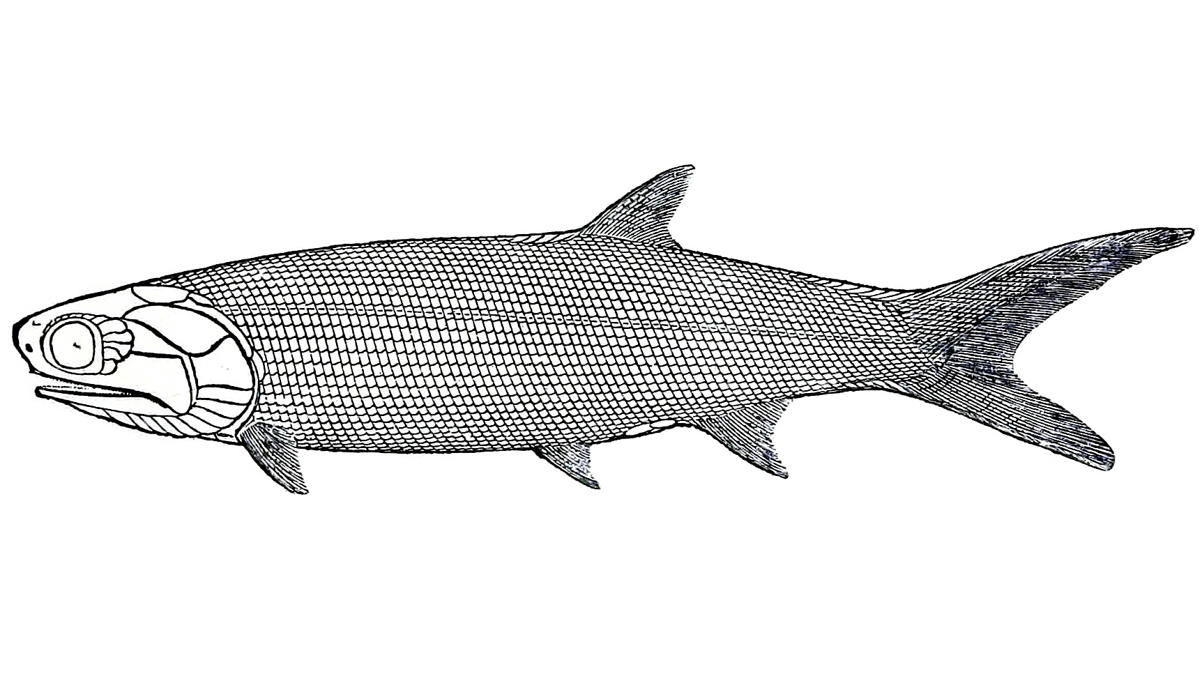 Fig. 42. — Restoration of Palaeoniscus macropomus. (After R. H. Traquair.) † Palaeoniscus freieslebeni Blainville 1818 (Actinopteri - Palaeonisciformes - Palaeoniscidae) [1] Synonyms: Palaeoniscus macropomus Agassiz 1833, Palaeoniscus magnus Woodward 1891